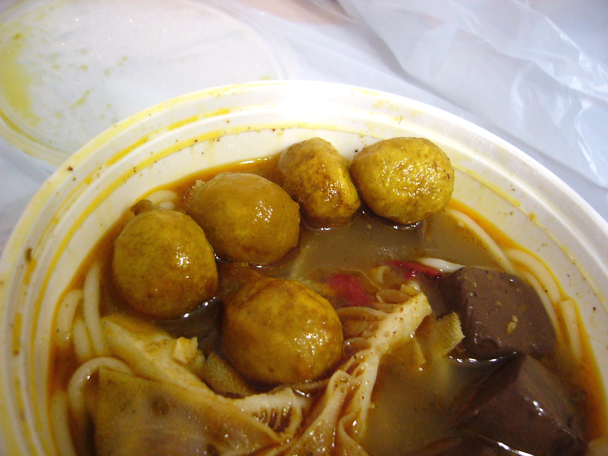 Curry Fishball